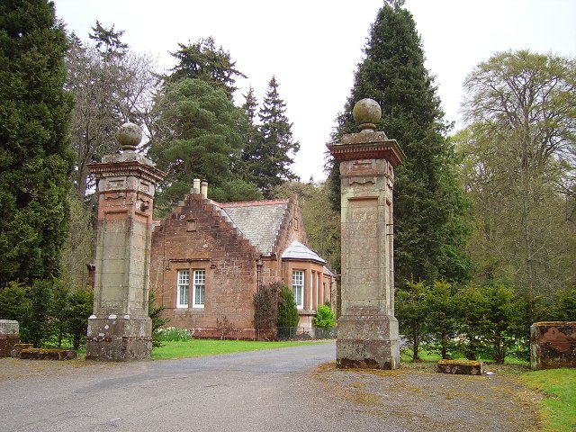 Gate and Lodge, Portmore. Baronial grandeur, along the Eddleston foot of the Moorfoot Hills.